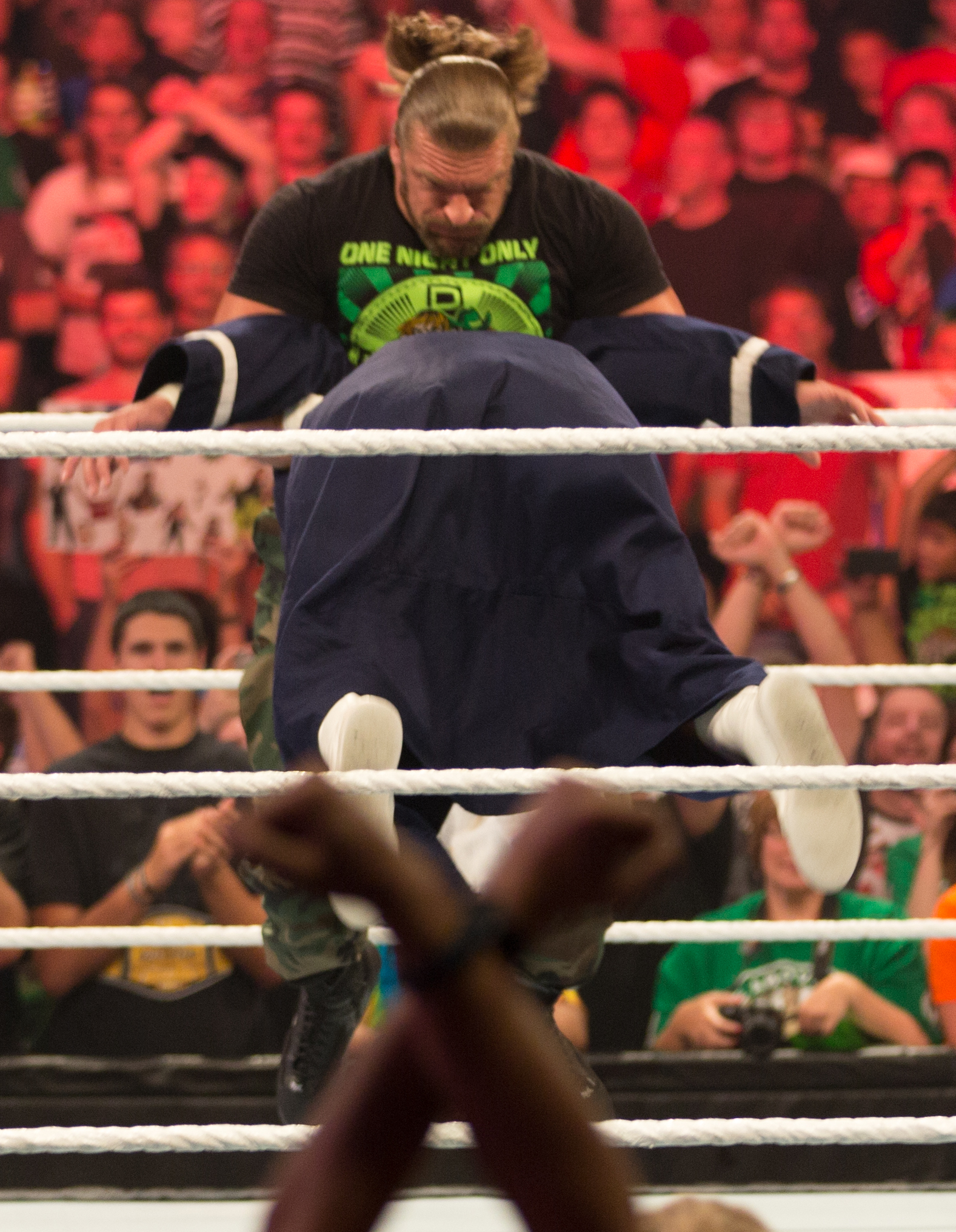 Damien Sandow receives a Pedigree, a kneeling double underhook facebuster, from Triple H as the rest of the members of D-Generation X (Shawn Michaels, X-Pac, Road Dogg and Billy Gunn) look on during Raw 1000.